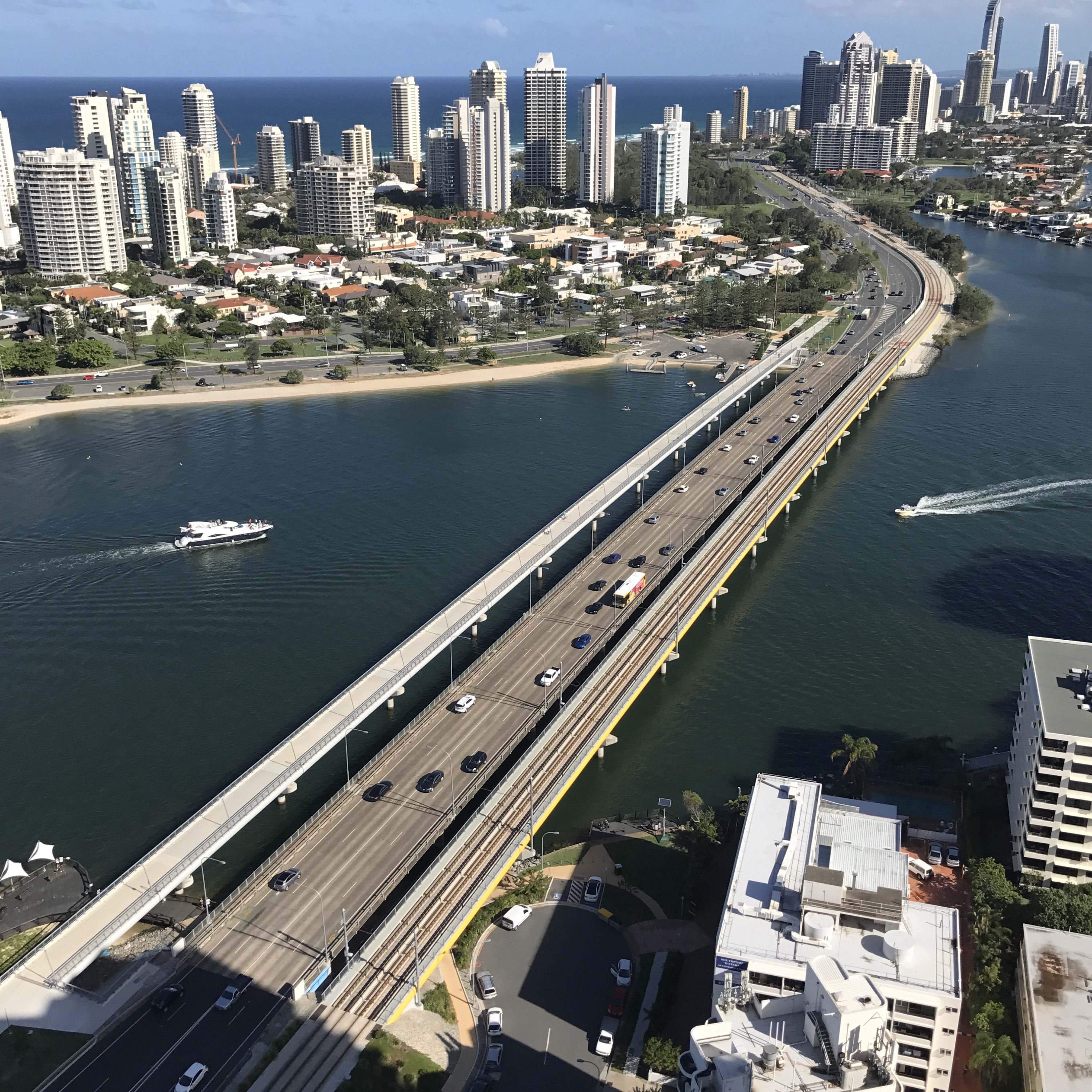 Gold Coast Highway Bridge crossing Nerang River, Southport, Queensland in January 2017